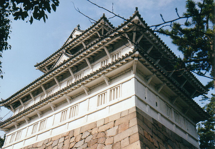 Fushimi-yagura of Fukuyama Castle(Japan's national important cultural property)